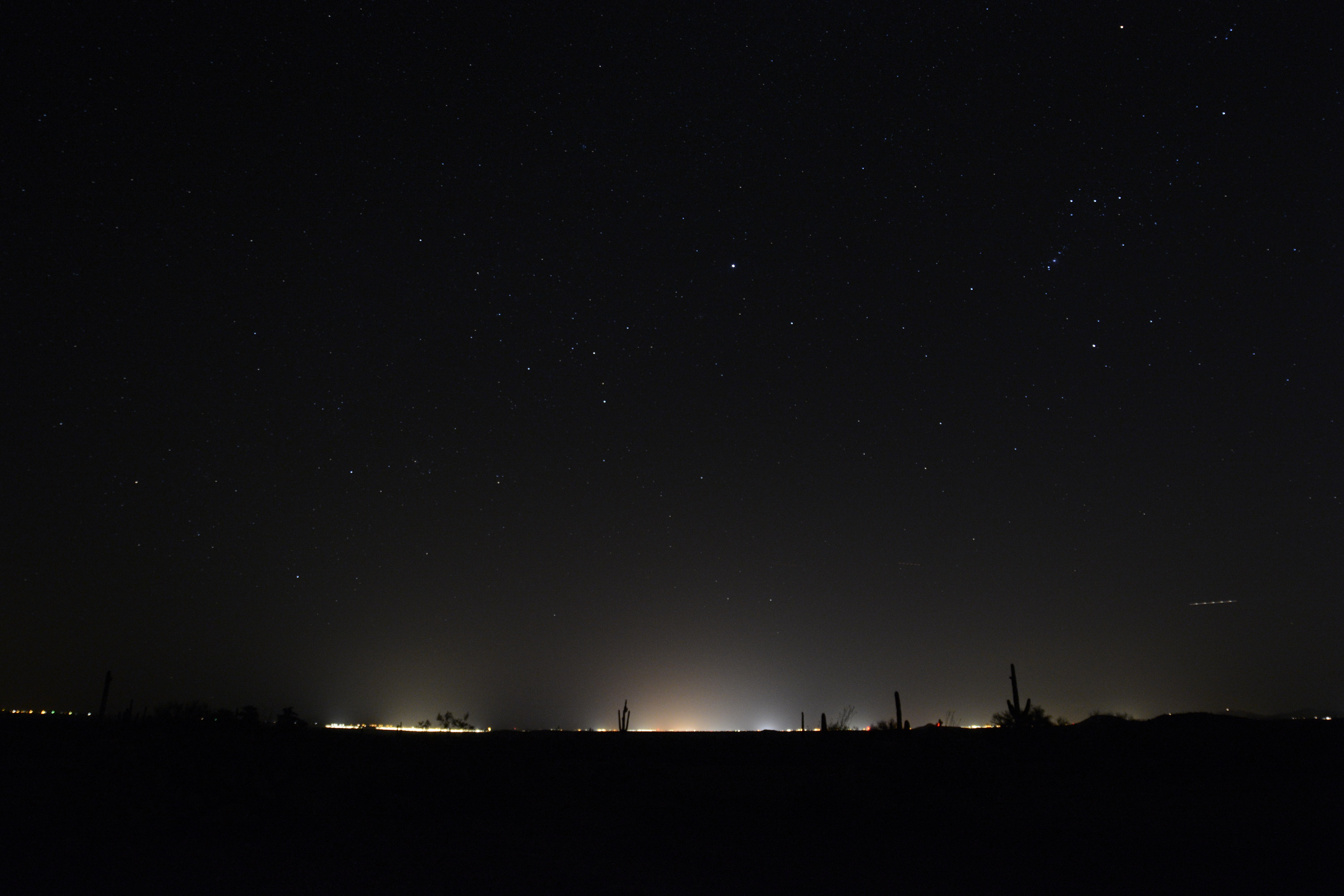 This is a view of the light pollution from Phoenix taken in Surprise from 55 miles away.